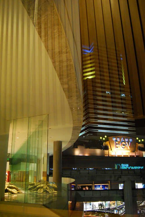 Bangkok Art and Culture Centre, Bangkok, Thailand